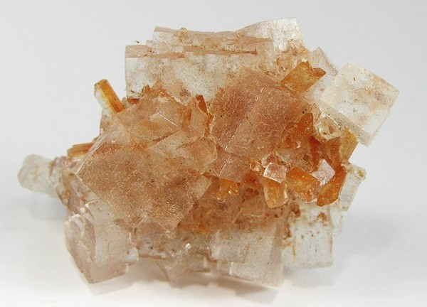 Halite, Gypsum (Var.: Gypsum) Locality: Inowrocław, Kujawsko-Pomorskie, Poland (Locality at ) Size: 5.9 x 3.9 x 2.4 cm. The best halite specimens around generally come from Poland, and here, you have the interesting association of orangey blades of selenite that have grown up amongst them. Ex. Jaime Bird Collection.